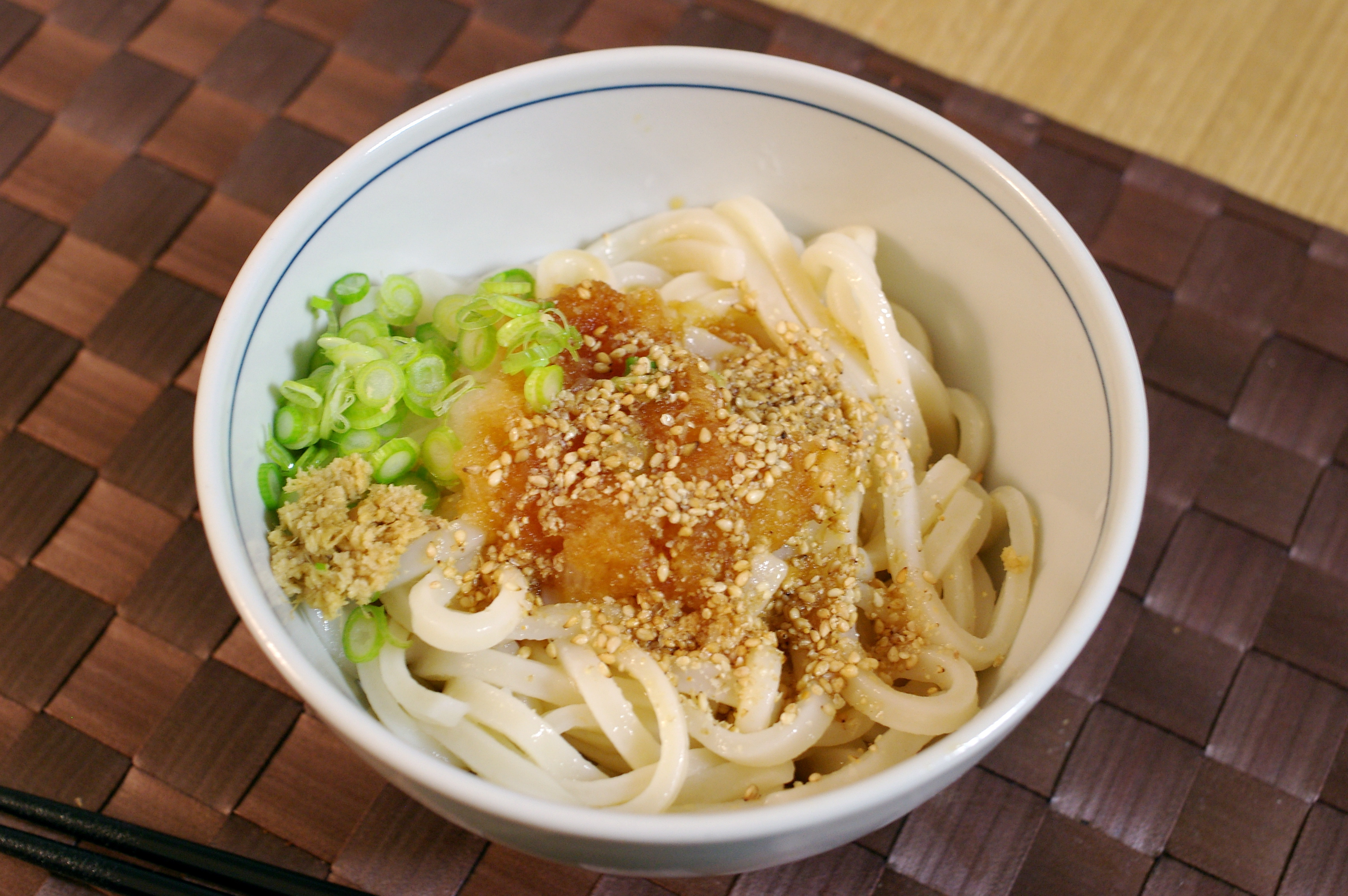 Ingredients (for two people) - 2 bunches of udon noodle - 1/4 Japanese raddish - 5 cm of green onion - Small piece of ginger - White sesame - Udon soup (soy sauce, sweet sake, seaweed and bonito broth) Directions 1. Peal a radish and grate it. Then, drain excess liquid from the grated radish. 2. Peal a ginger and grate it. 3. Slice the green onion. 4. Crush sesame. 5. Boil noodle for 13 - 15 minutes. Then, wash the noodle with cold water. 6. Put the noodle in a bowl. 7. Arrange the grated radish, green onion, ginger on the noodle. 8. Put the crushed sesame on the top. 9. Put the udon soup into the bowl.